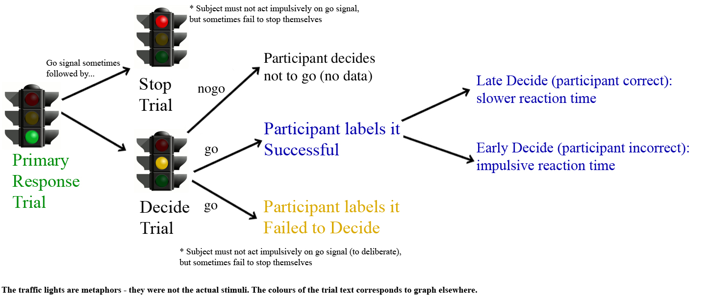 The different types of trials, their different possible outcomes, and which ones provided reaction time data.